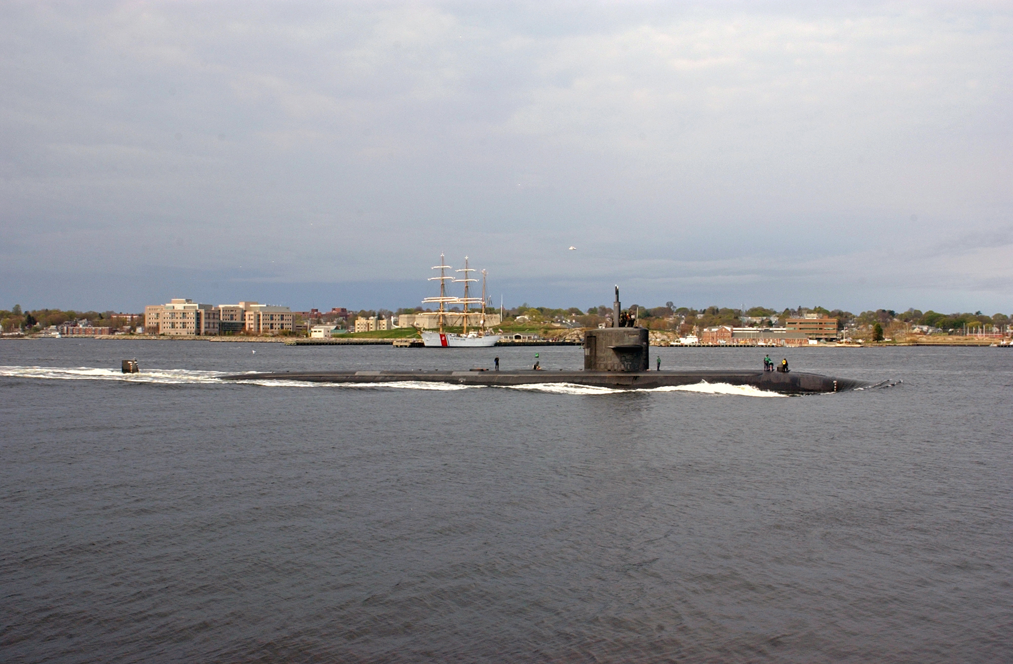 The Los Angeles-class attack submarine USS Philadelphia passes the U.S. Coast Guard Barque Eagle as it approaches Naval Submarine Base New London. Philadelphia recently completed its final deployment and is scheduled to be decommissioned June 25. Unit: Navy Media Content Services DVIDS Tags: USS Philadelphia (SSN 690); navy; submarine; U.S. Navy; attack submarine; submarine on the surface